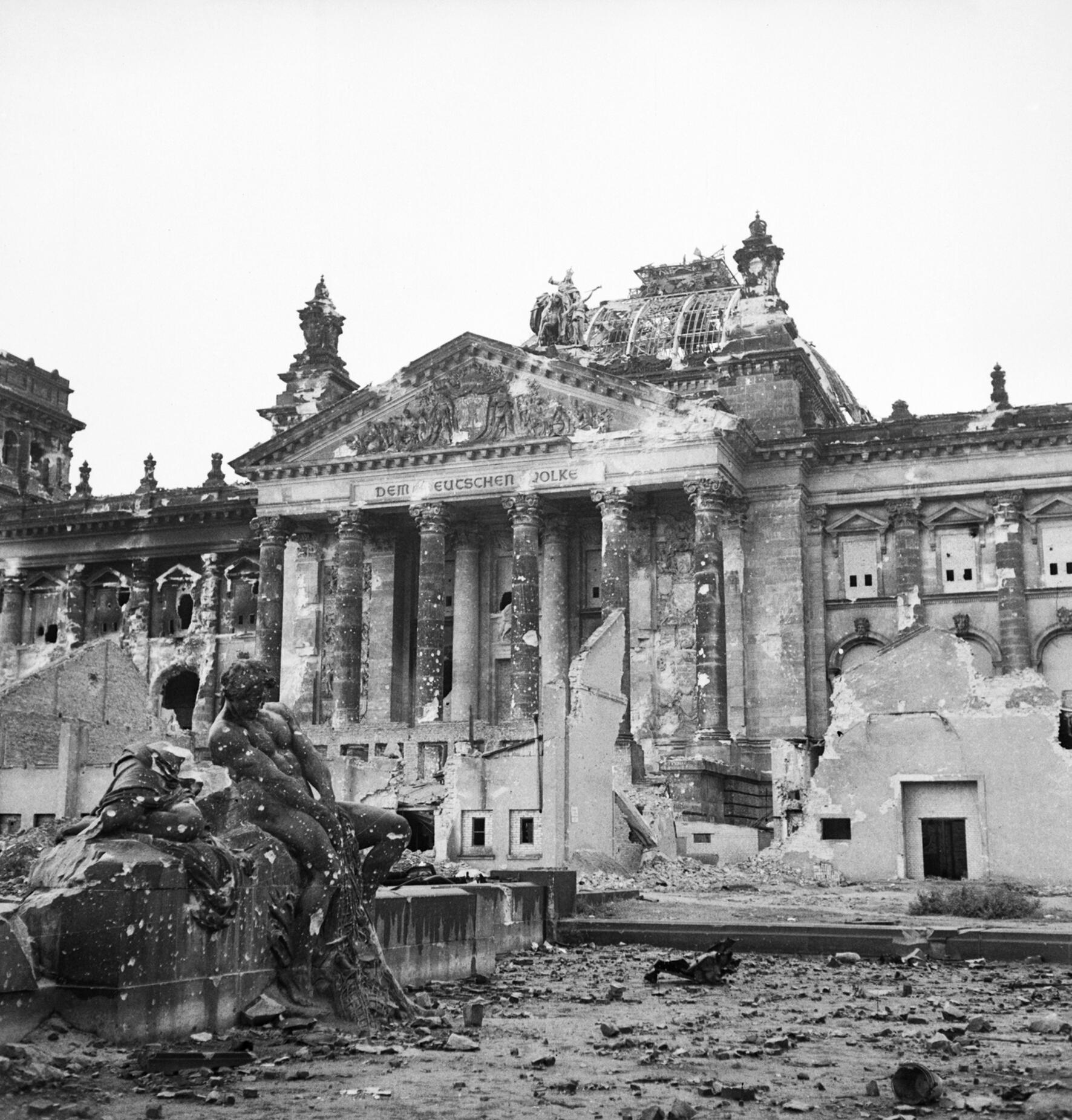 Ruins of the Reichstag in Berlin, 3 June 1945. The Reichstag after the allied bombing of Berlin.